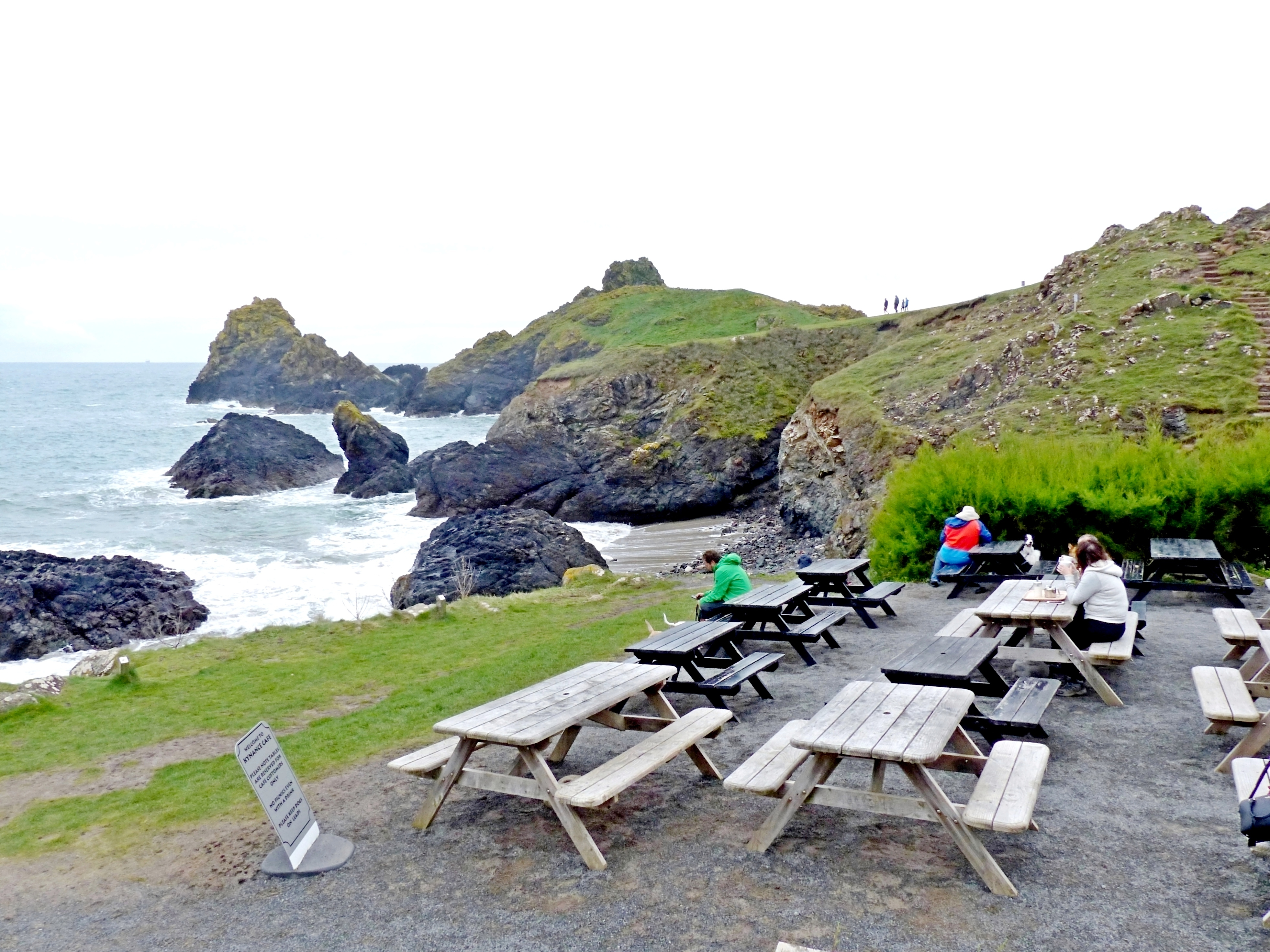 The National Trust cafe at Kynance Cove on the Lizard, Cornwall, England.